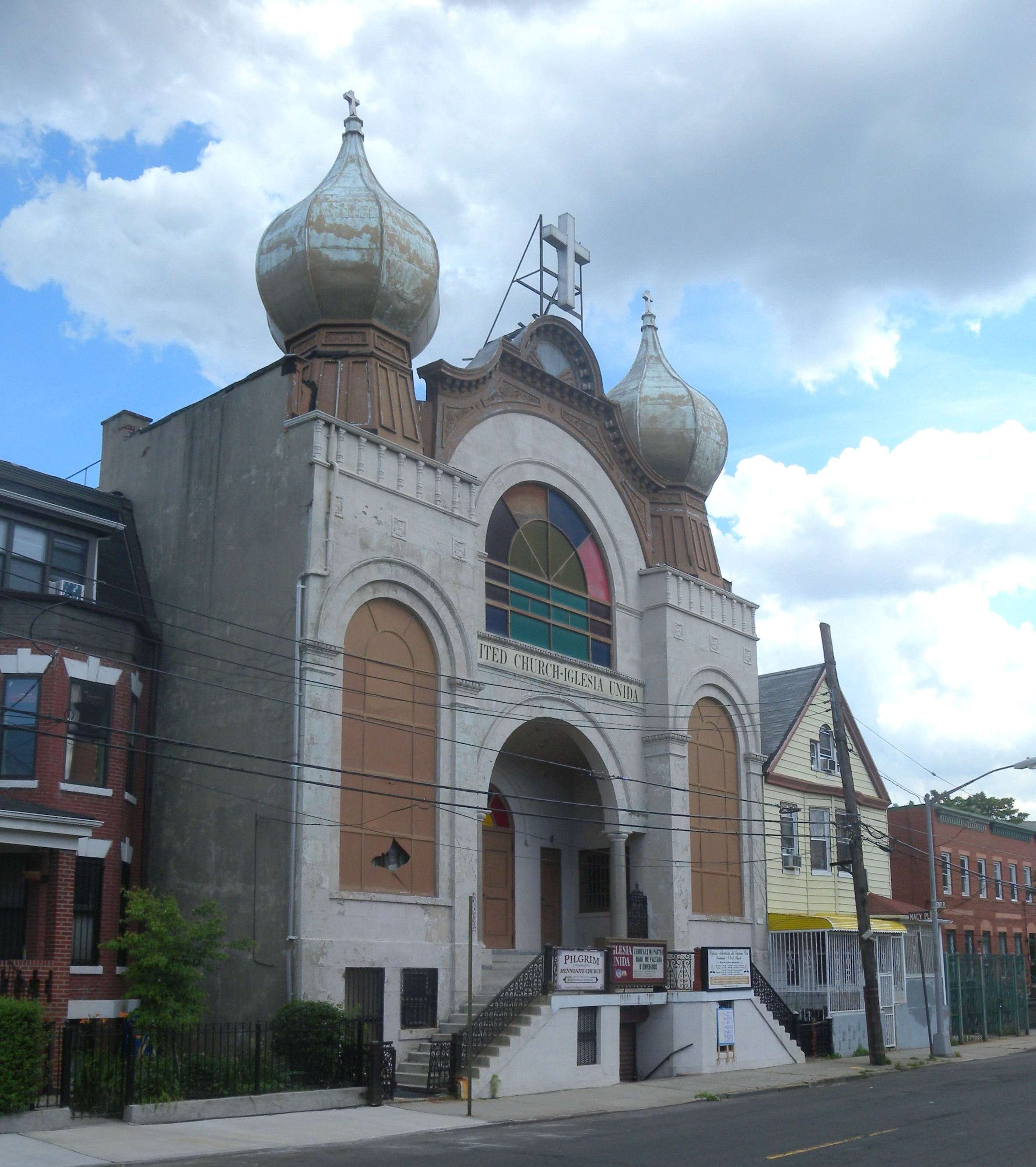 Looking south across Hewitt Place towards Macy Place and Pilgrim Mennonite Church / Egliscia Unida on a mostly sunny afternoon.